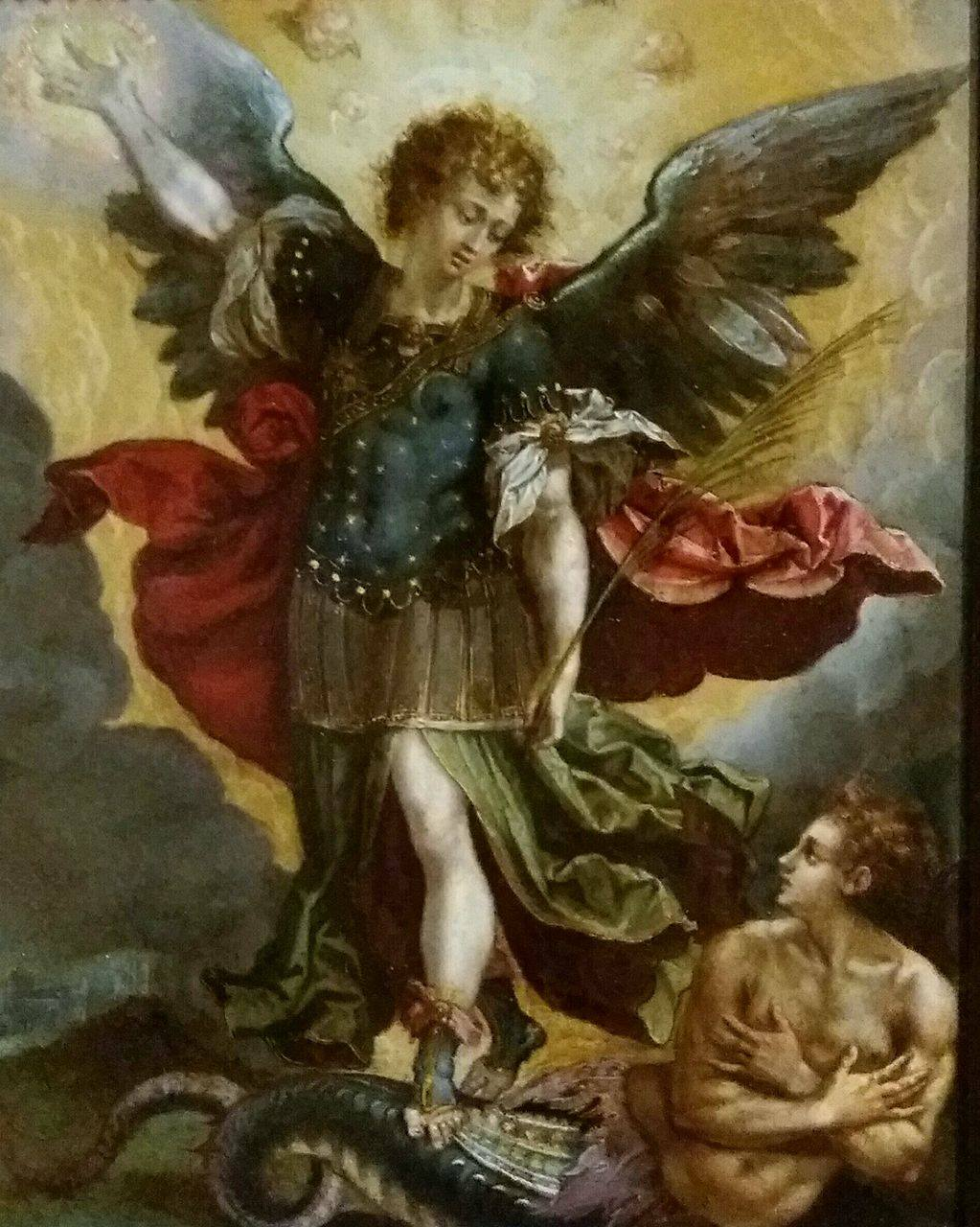 "The archangel Michael" by Lelio Orsi (oil on copper)